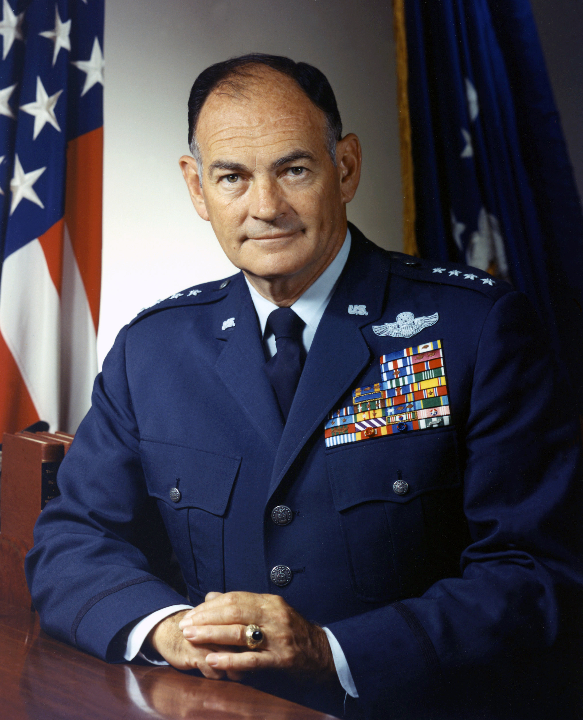 U.S. Air Force General George S. Brown, former Chairman of the Joint Chiefs of Staff.